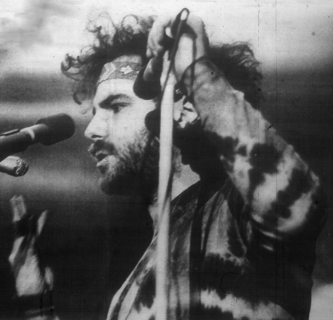 Crop and slight edit (to remove Spectrum logo) of File:Jerry Rubin - Spectrum 13Mar1970.jpg. Jerry Rubin speaking at the University at Buffalo on 10 March 1970.